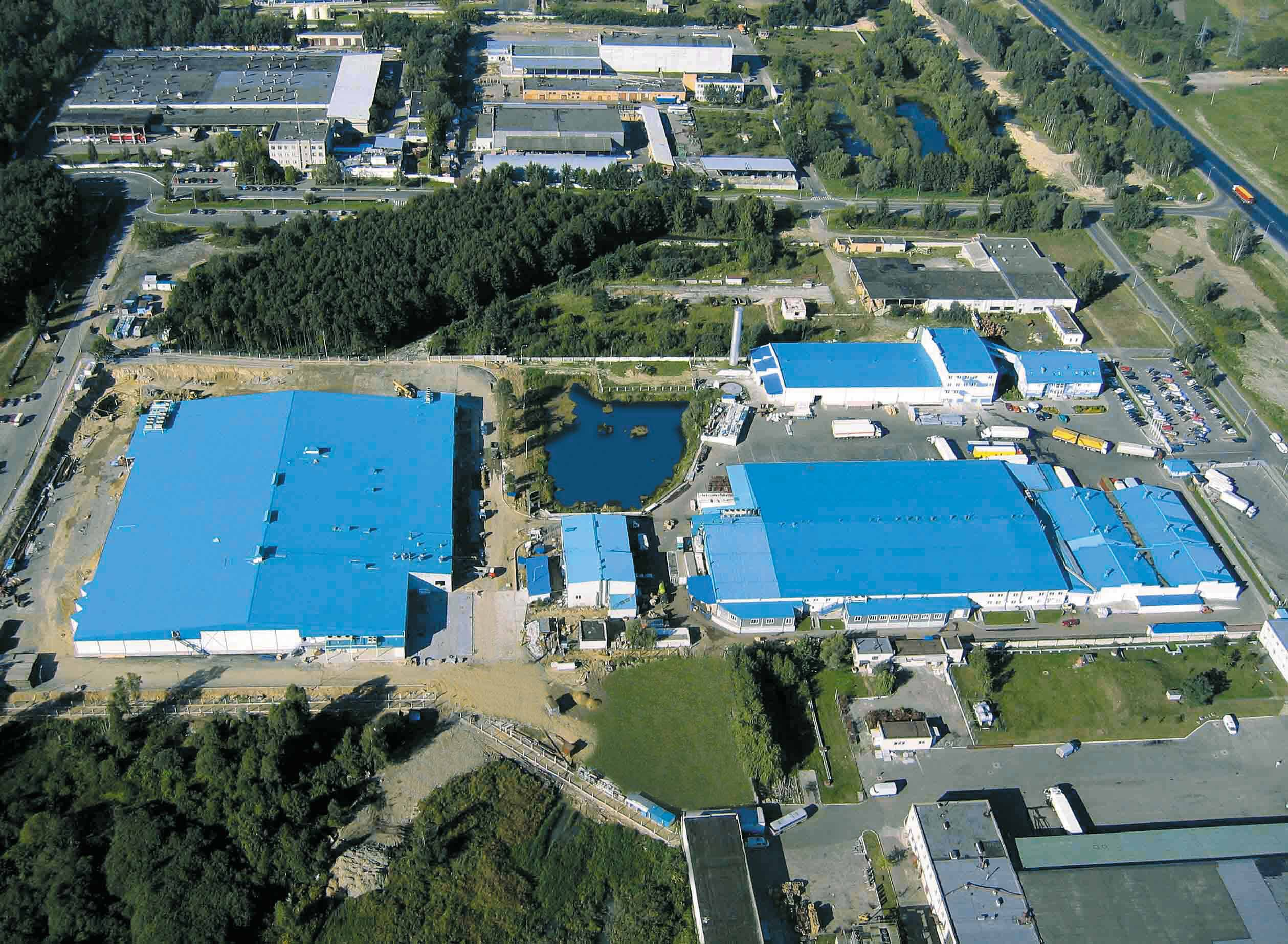 Aerial view of Joint Belarusian-German Venture «Santa Bremor», Brest, Belarus